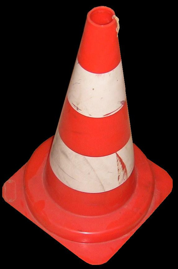 A road sign